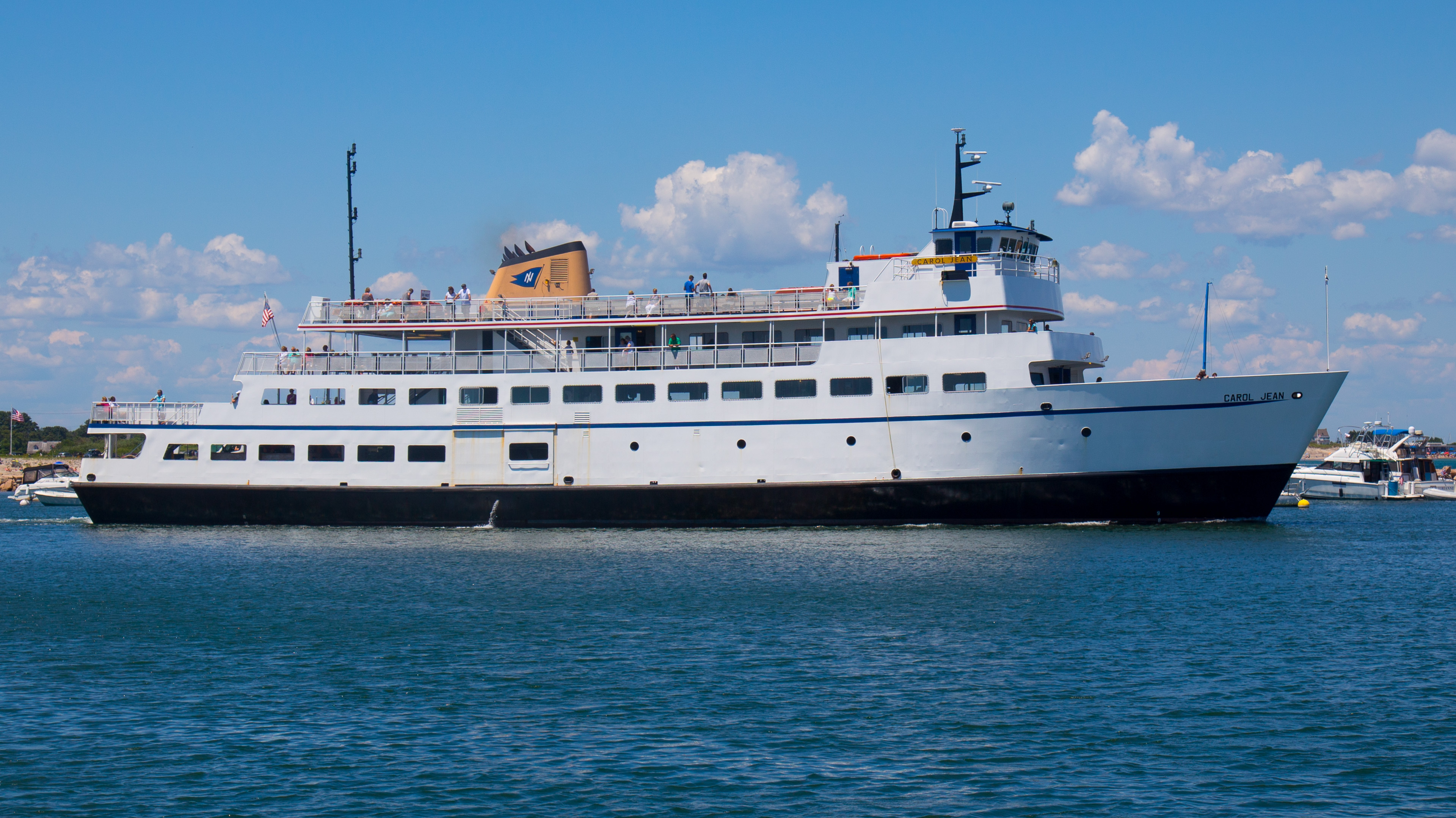 Photo of the Block Island ferry "Carol Jean"